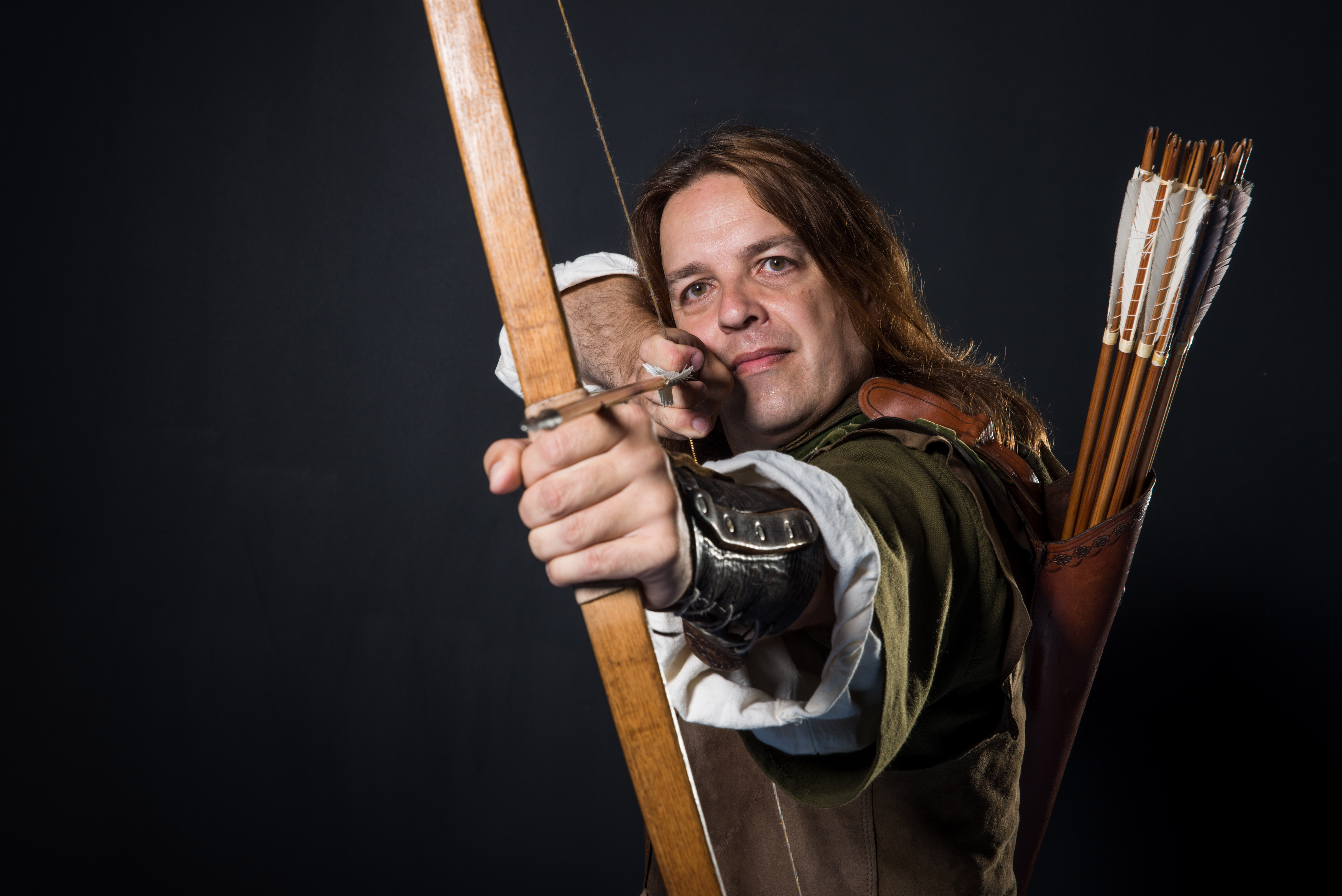 Tim Pollard, the City of Nottingham's Official Robin Hood